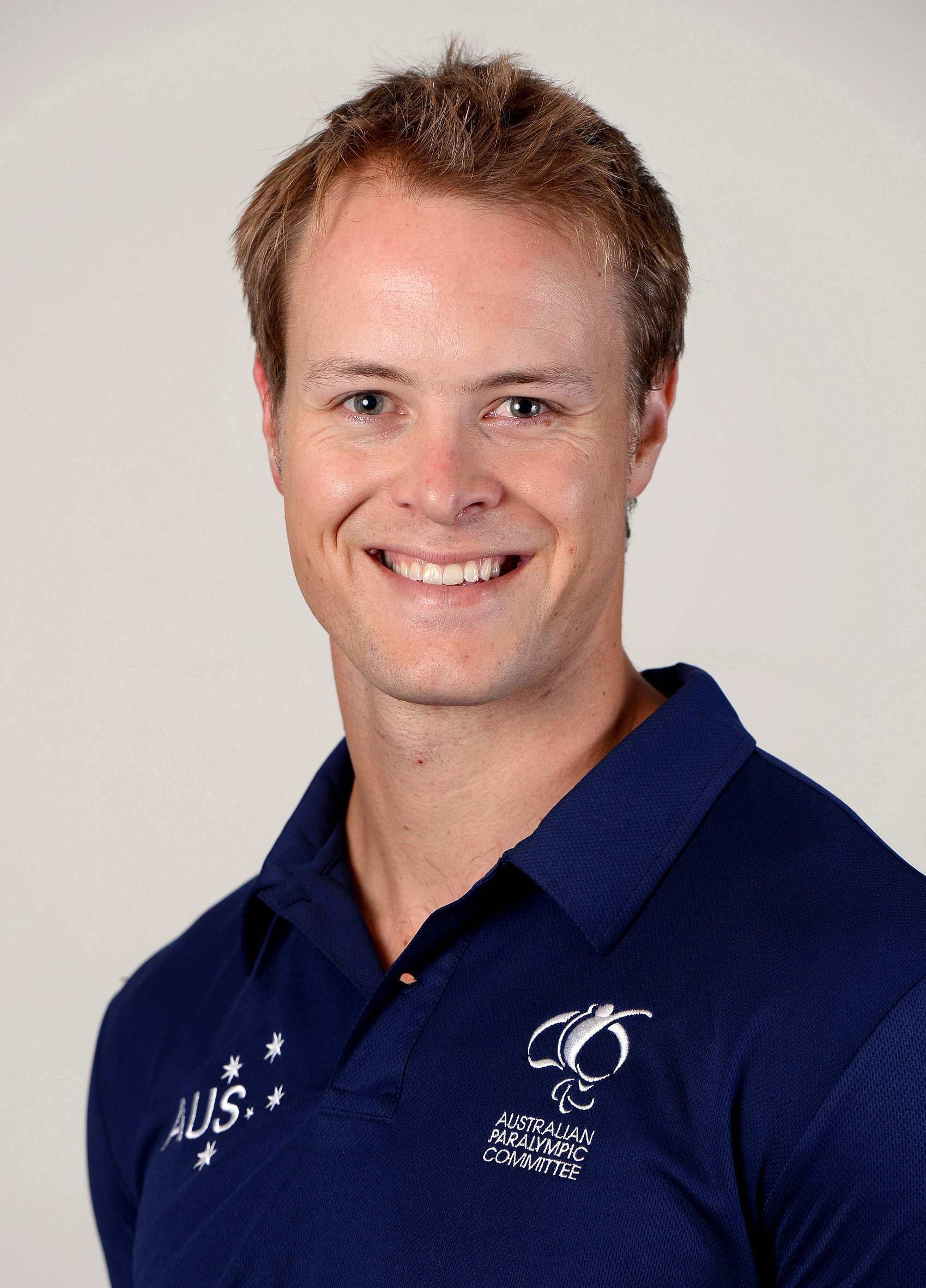 Portrait photograph of Curtis McGrath taken at team processing session for shadow members of 2016 Australian Paralympic team